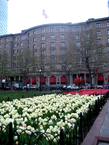 Copley Plaza hotel, Boston, Massachusetts